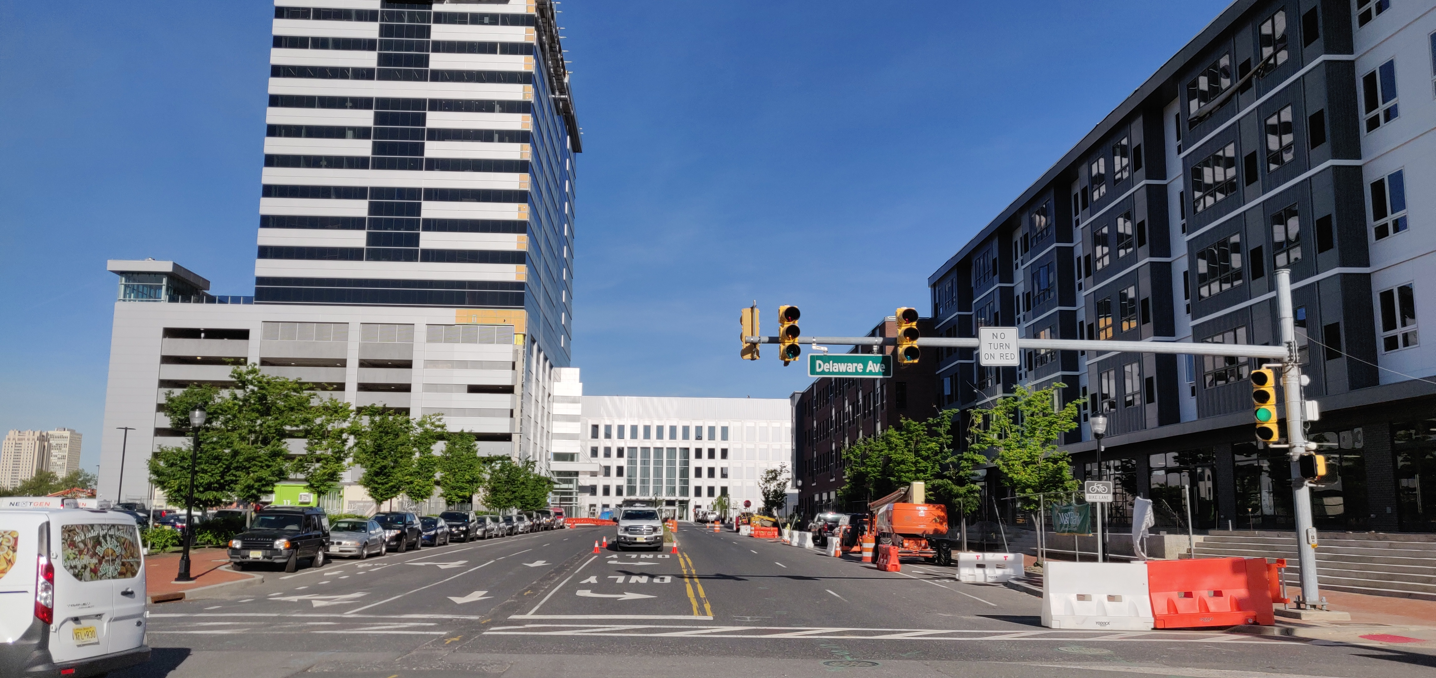 From left to right, Camden Tower, American Waterfront Building and 11 Cooper St Apartments.